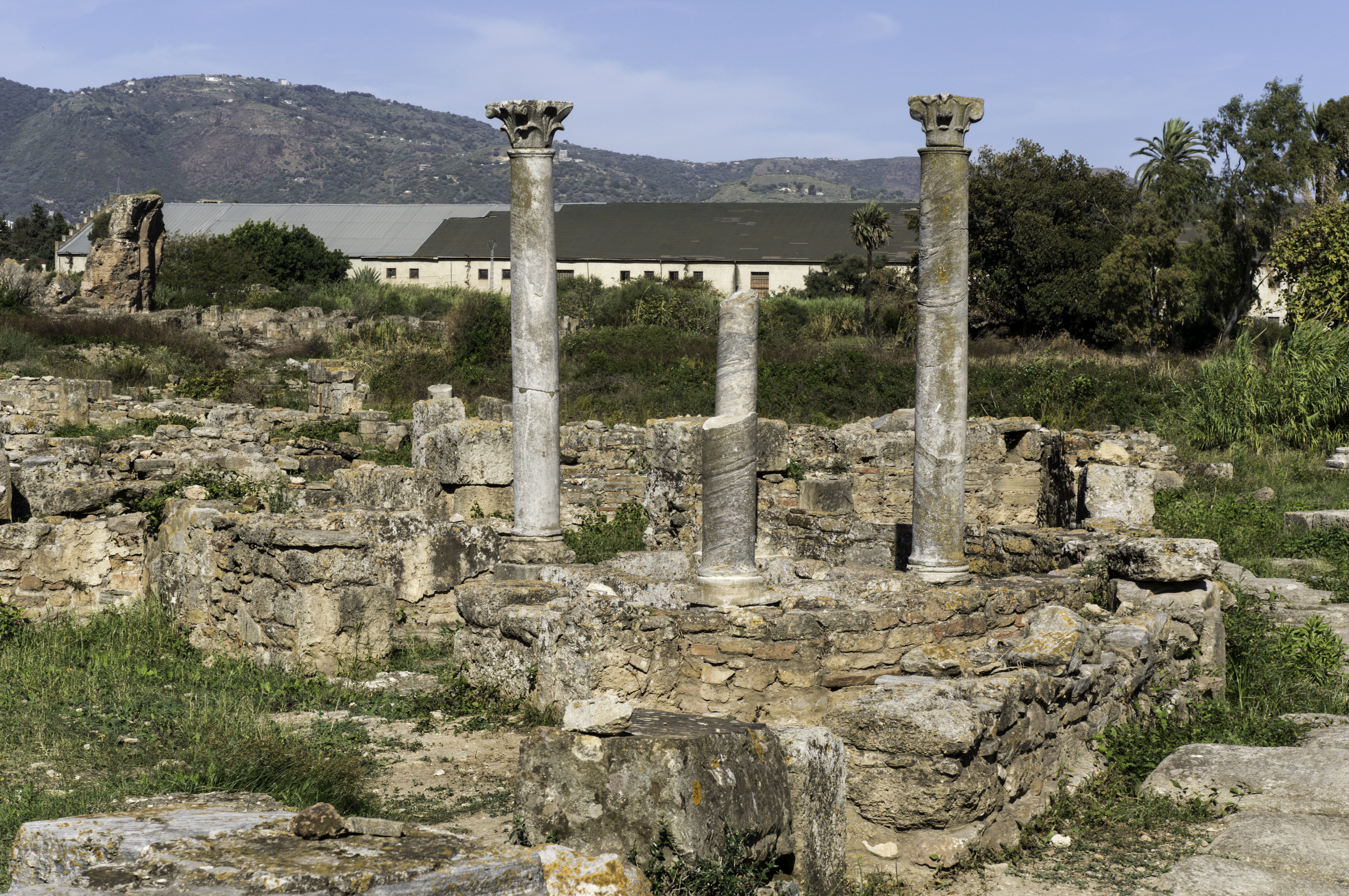 Roman ruins at Hippo Regius (Annaba)